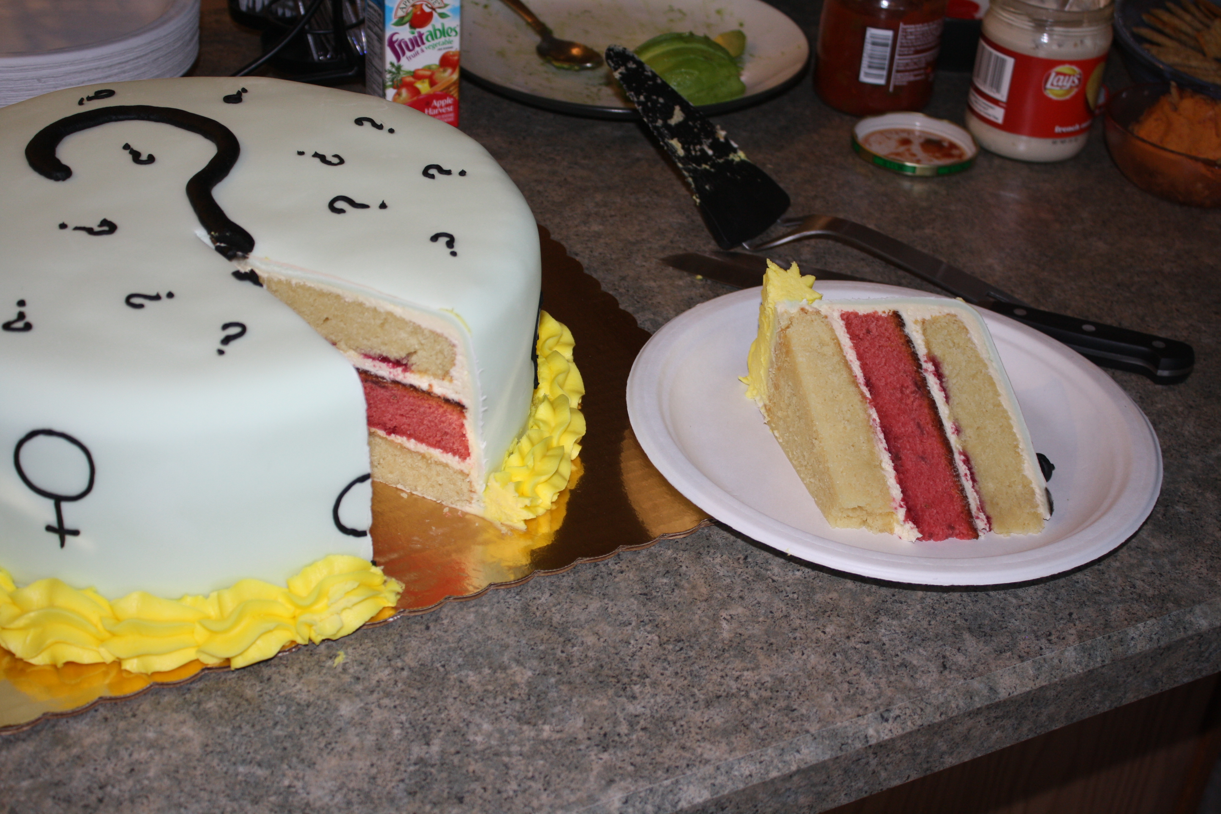 A cake used as part of a "gender reveal" party. The pink middle layer indicates that the baby is expected to be female.